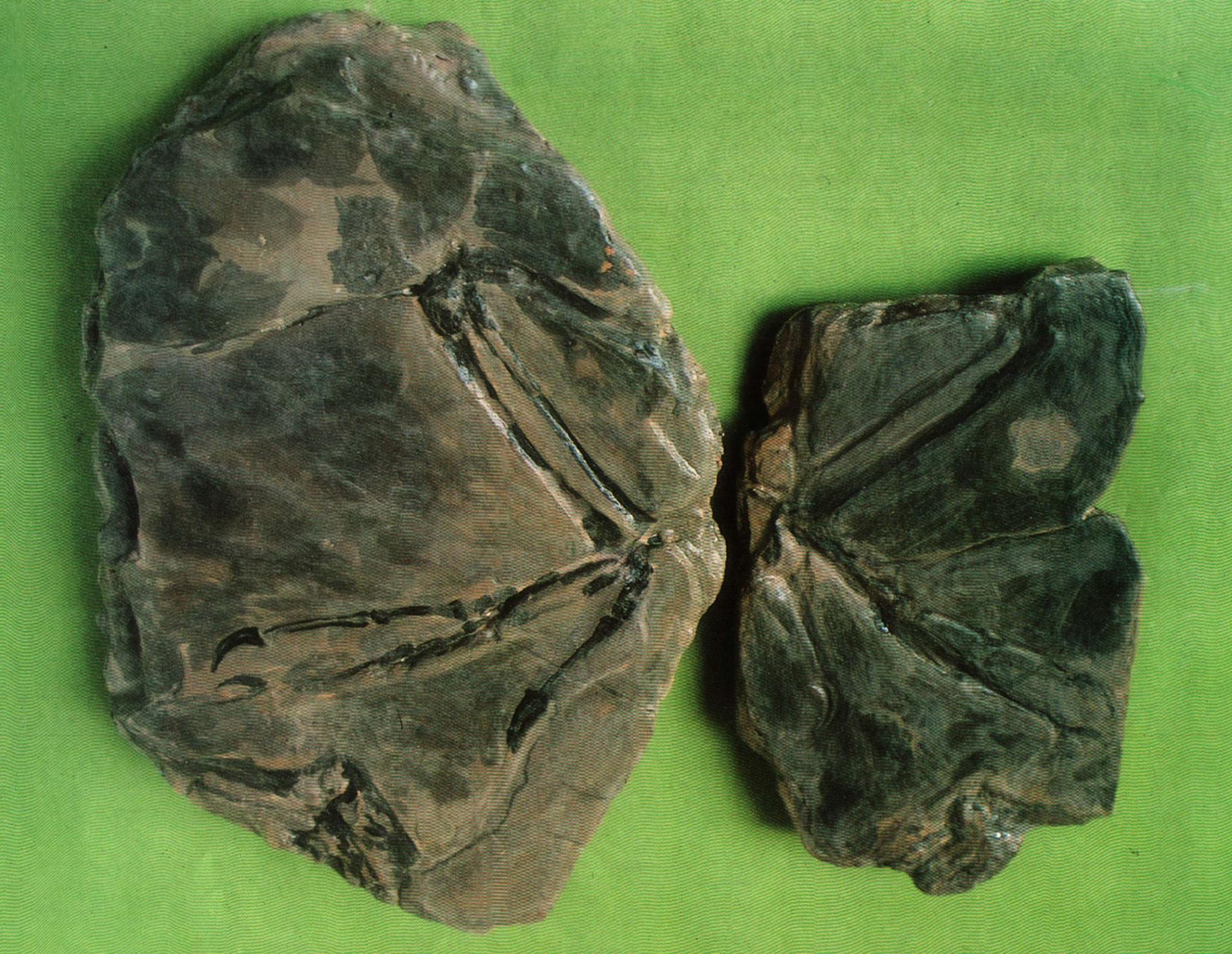 Fossil of Proornis coreae Lim.